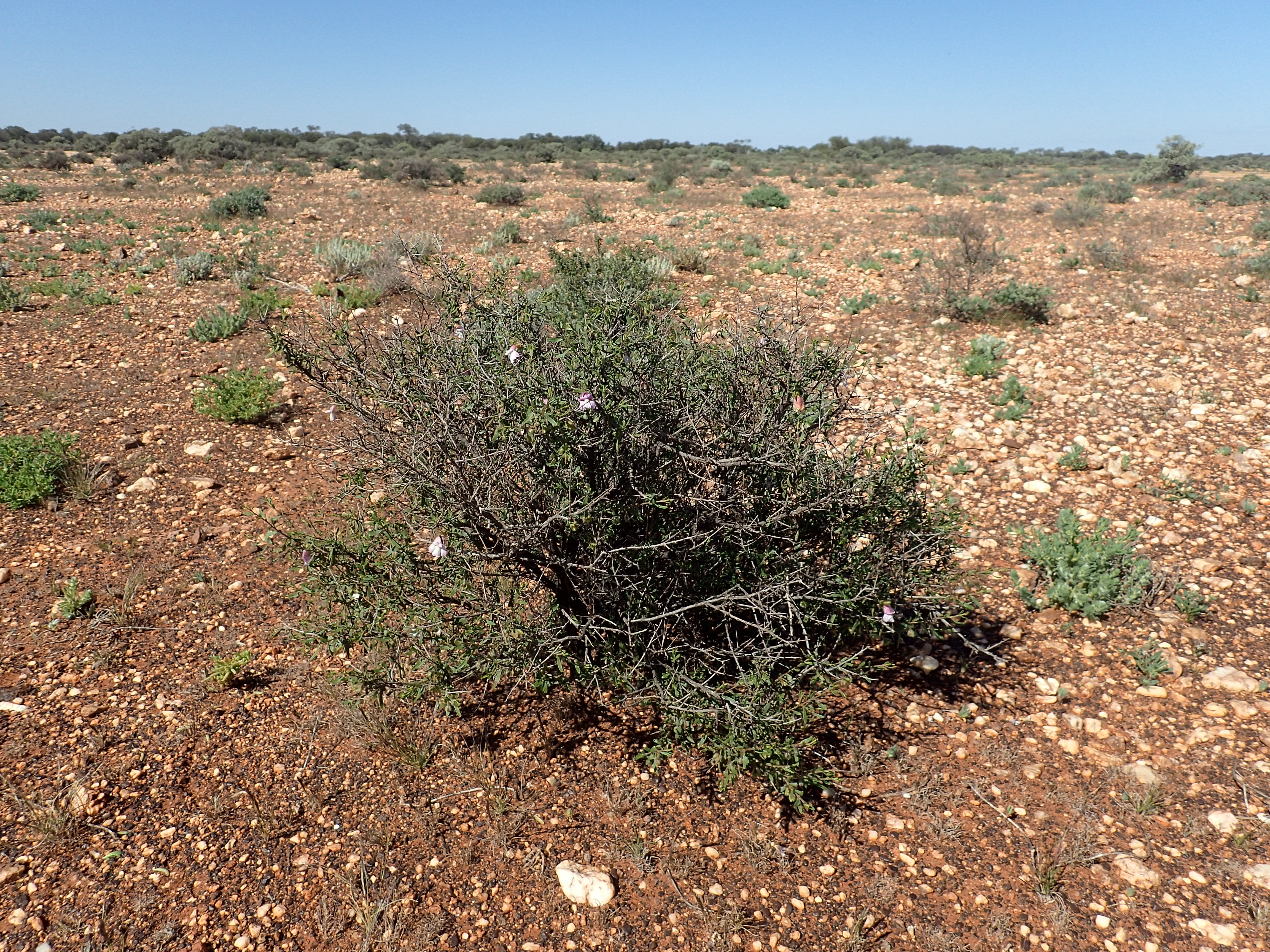 Eremophila spinescens (habit) growing 27km east along Neds Creek Road